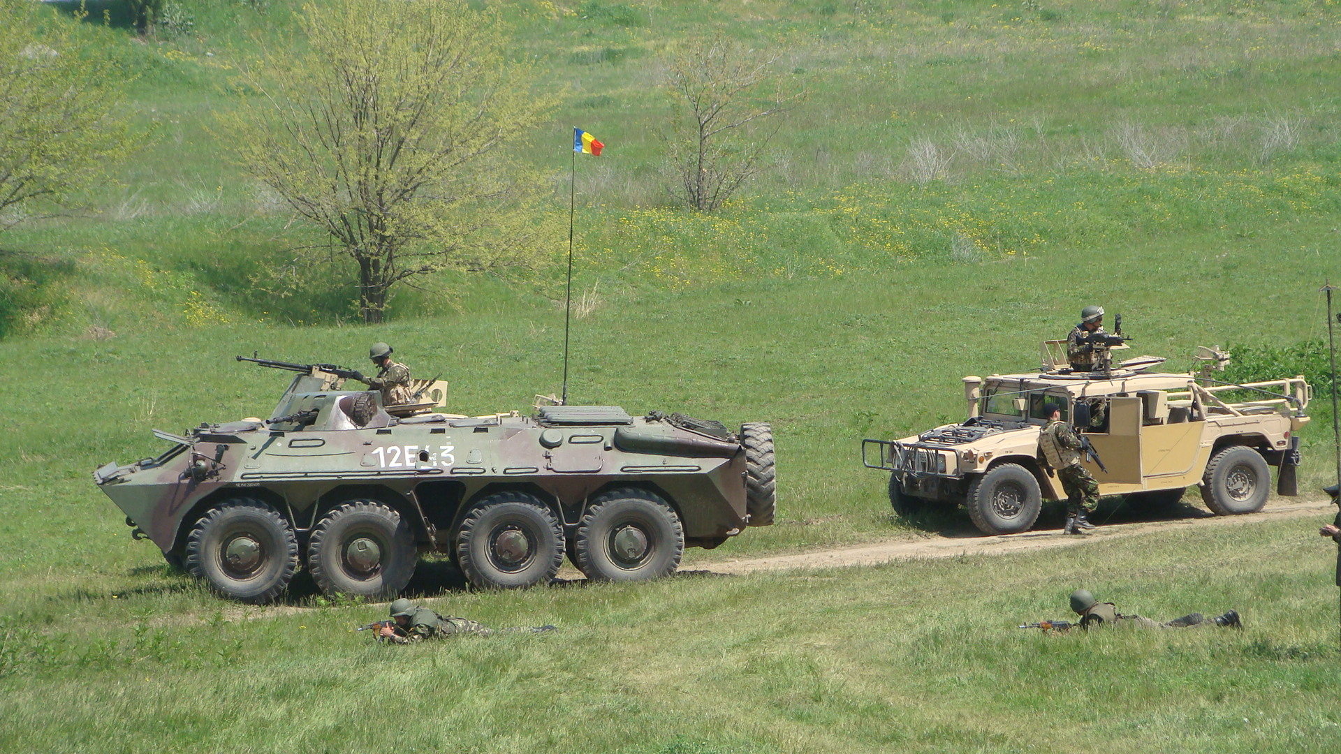 A Romanian TAB-77 (licensed built BTR-70) and a Humvee during the Infantry Day Military Demonstration.